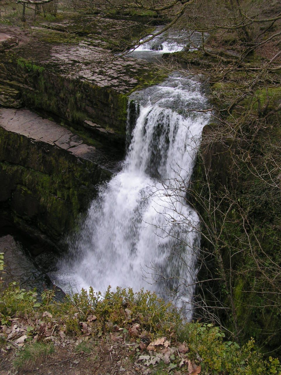 Sgŵd Clun-gwyn, a waterfall on the Afon Mellte near Ystradfellte in the Brecon Beacons National Park . Photograph taken 17th April 2005.